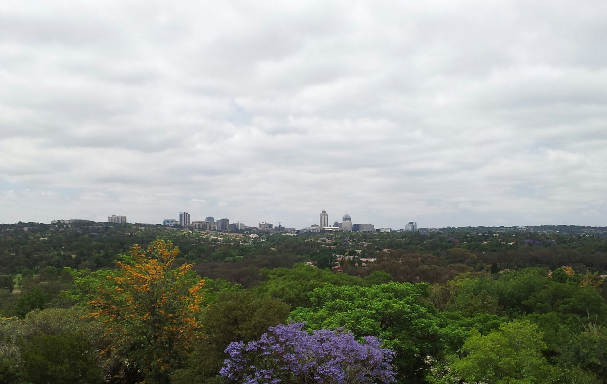 view of Sandton buildings